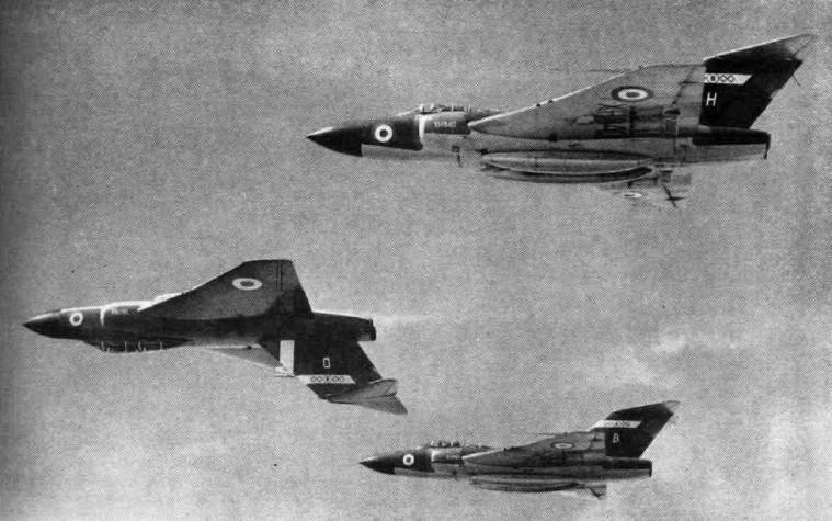 Three Gloster Javelin FAW.7 of No. 64 Squadron, Royal Air Force, in 1959. The photo was taken, because two captains of the United States Marine Corps, B.M. Adrian and Dirk Bierhaalder, served as radar operators with 64 Squadron at RAF Duxford, Cambridgeshire (UK). The aircraft nearest to the camera is XH840.